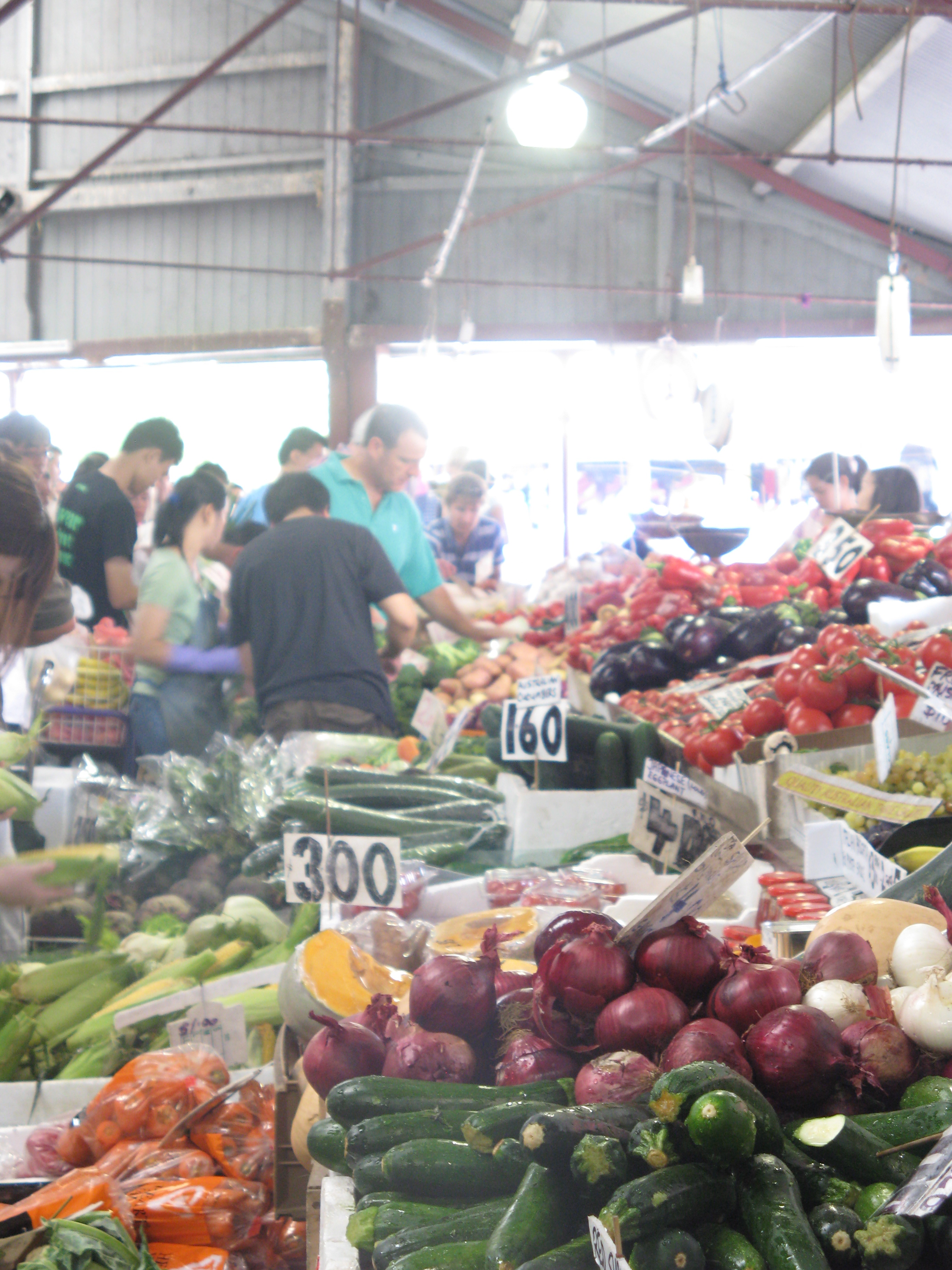 Fresh vegetables at the Queen Victoria Market, Melbourne, Australia. Photo taken by Nick carson in February 2010.